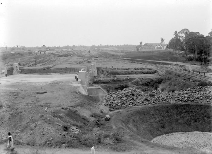 The building of a new railway station in Manggarai, Weltevreden